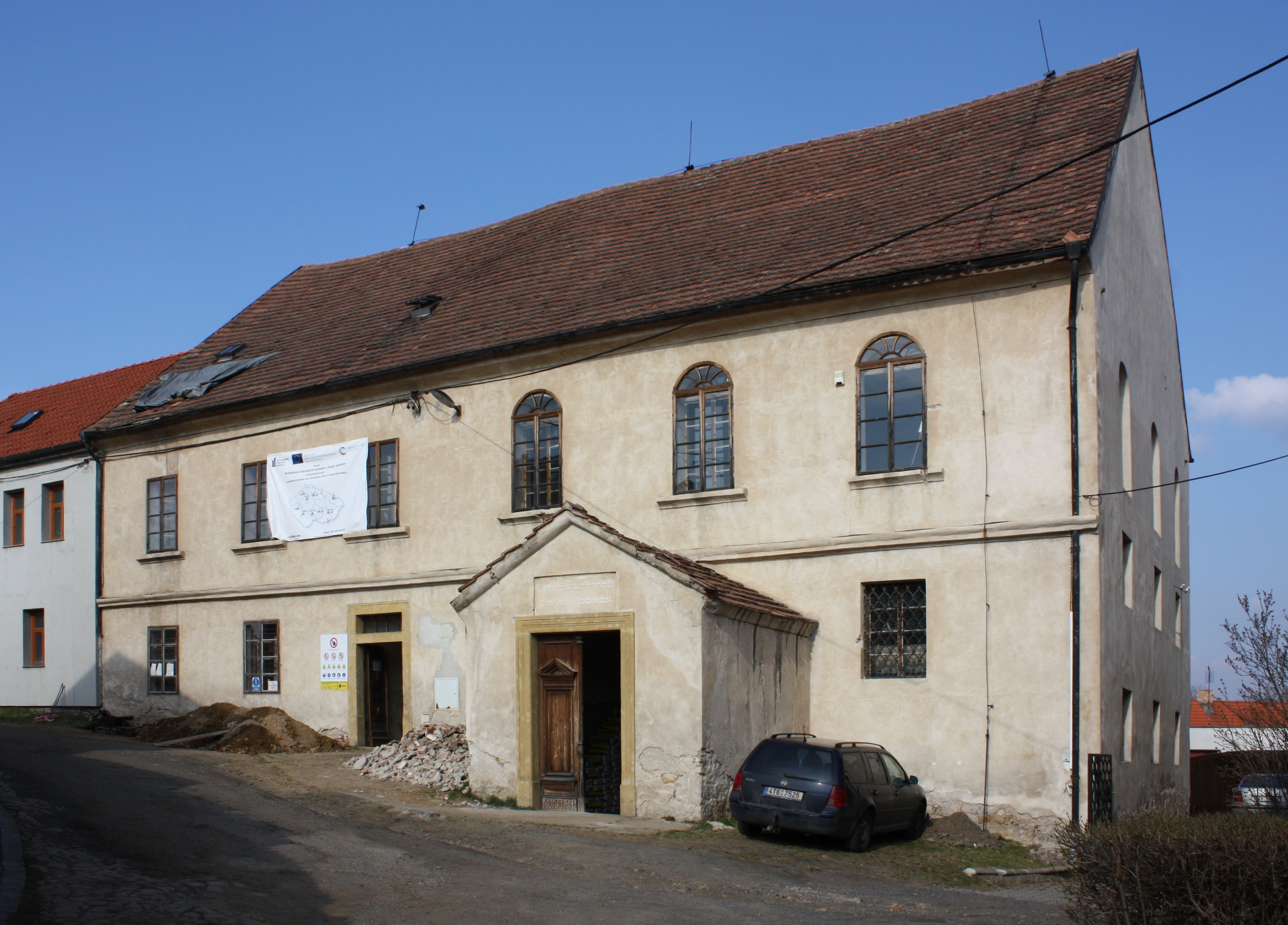 Former synagogue in Brandýs nad Labem, Czechia.